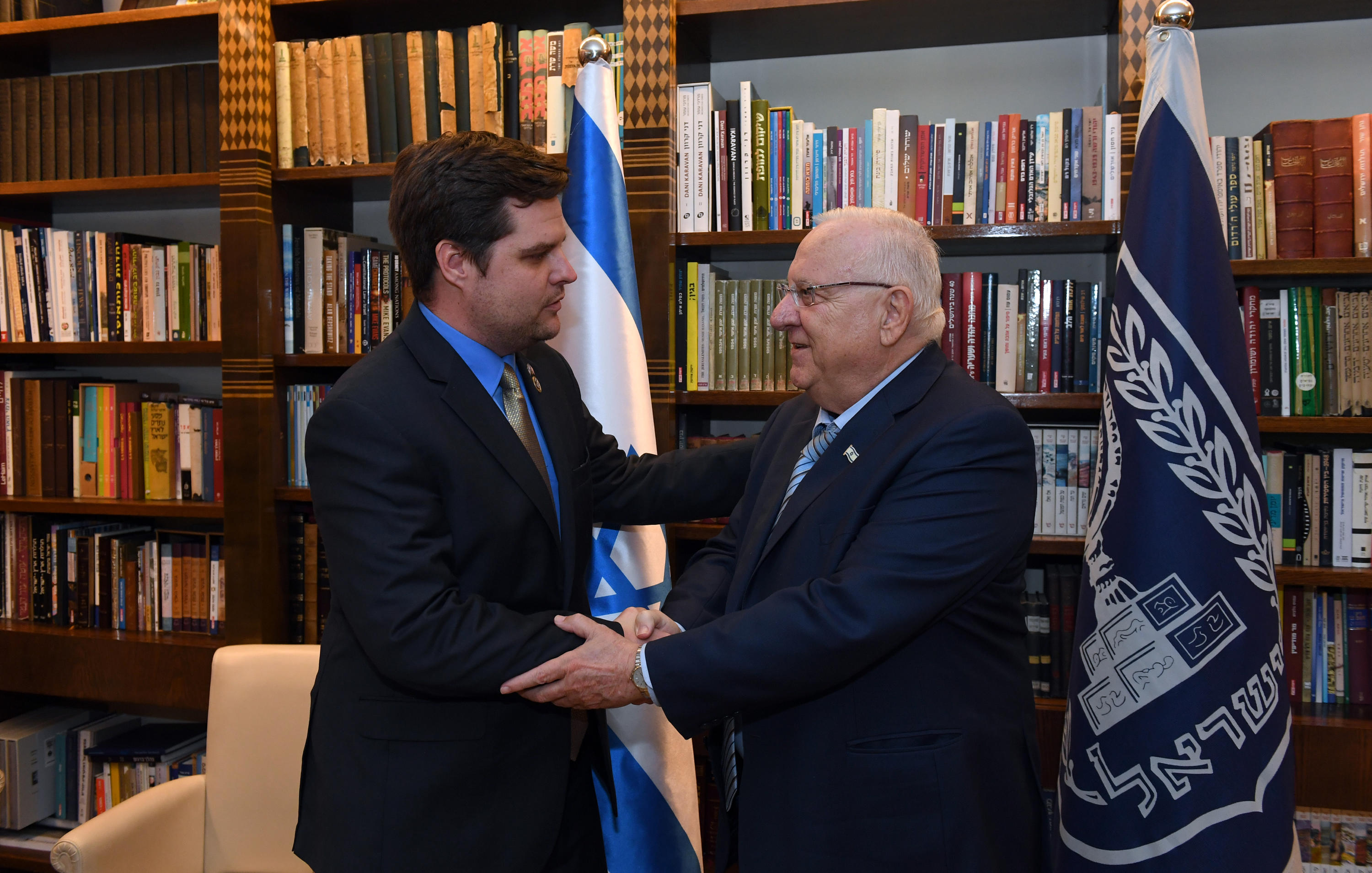 ראובן ריבלין נשיא מדינת ישראל בפגישה עם חברי קונגרס מארצות הברית בירושלים במשכן הנשיא בתמונה מימין לשמאל: ראובן ריבלין ומאט גאטץ'